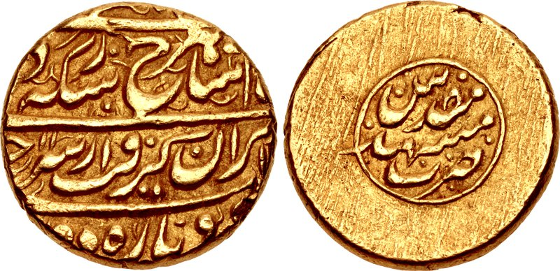 Coin of the Afsharid shah of Iran, Shahrokh Afshar.